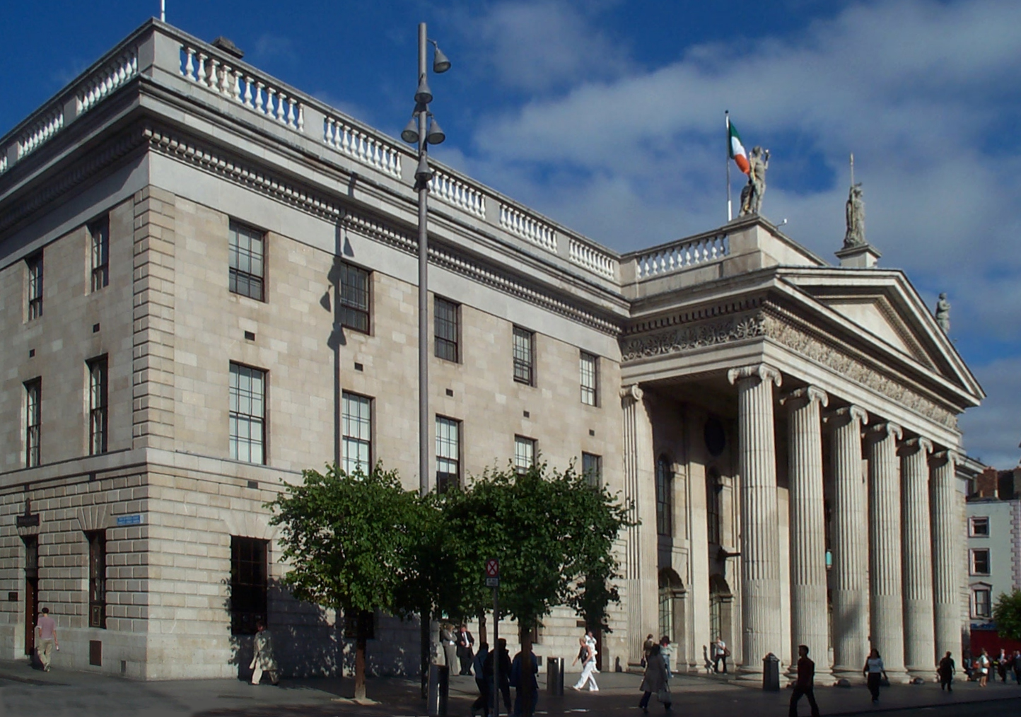 General Post Office (Dublin)Modification of original by Scolaire using Adobe Photoshop Elements 6: Cropped slightly and converging verticals adjusted.